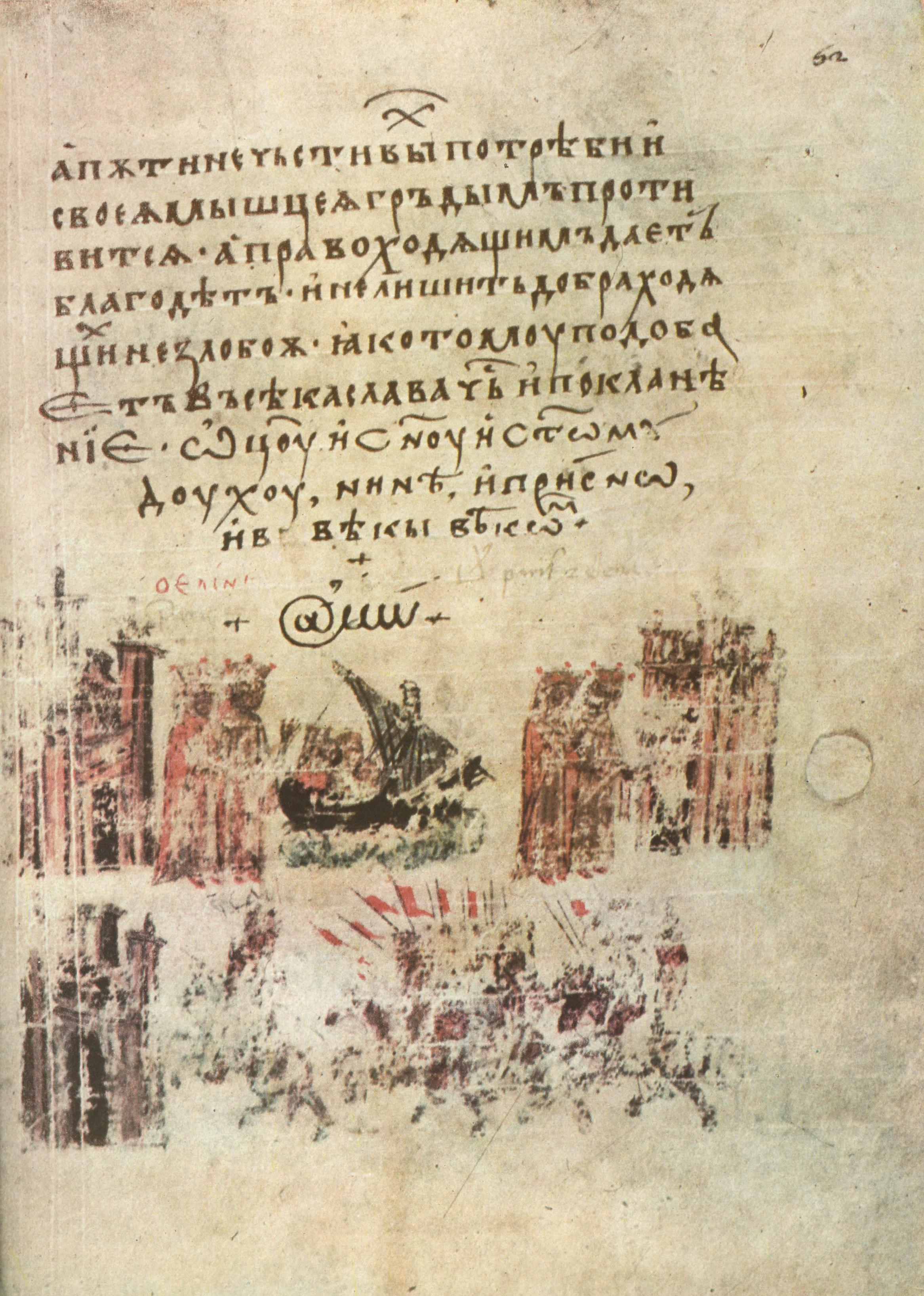 Miniature 19 from the Constantine Manasses Chronicle, 14 century: Escape of Paris and Helen and the beginning of the Trojan War.